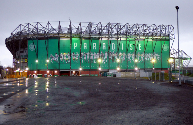 Celtic Park